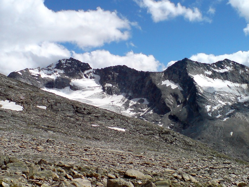 Picture taken from the trail to Zwischbergenpass above Saas-Almagell. From left to right: Sonnighorn (3487m), Sonniggrat (3339m), Plattenhorn (3324m) and Kanzilti (3308m).